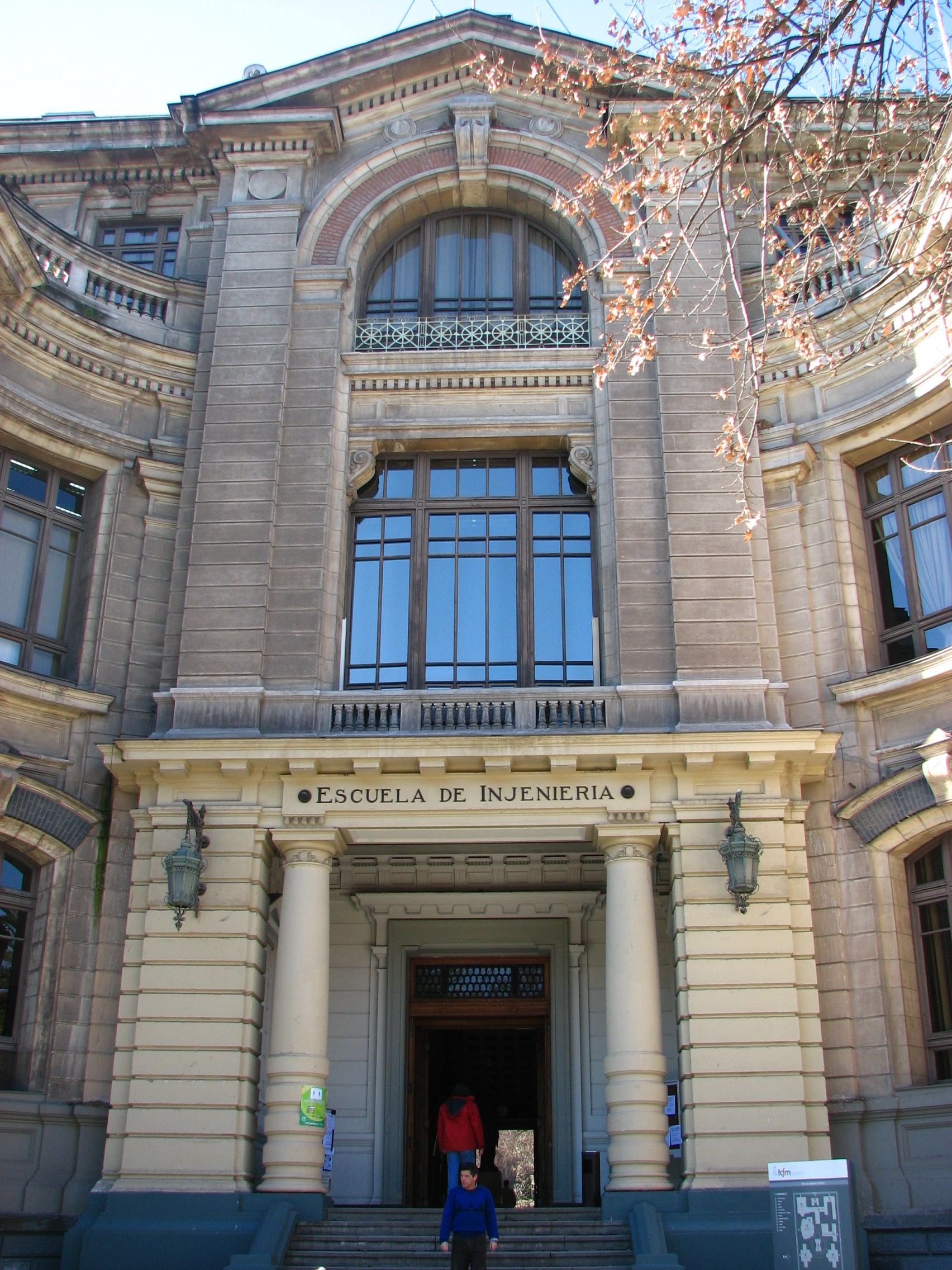 Faculty of Physical and Mathematical Sciences, University of Chile. The word ingeniería ("engineering" in Spanish) is written with the letter J due to the application of Bello orthography.